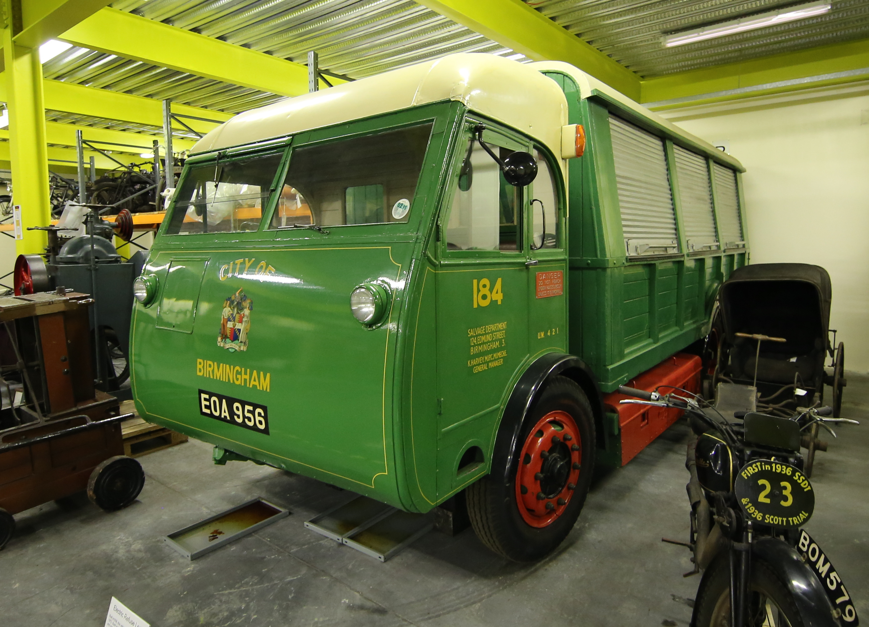 Electricar DV4 No.184 E0A 956 preserved in Museum Collections Store, Birmingham